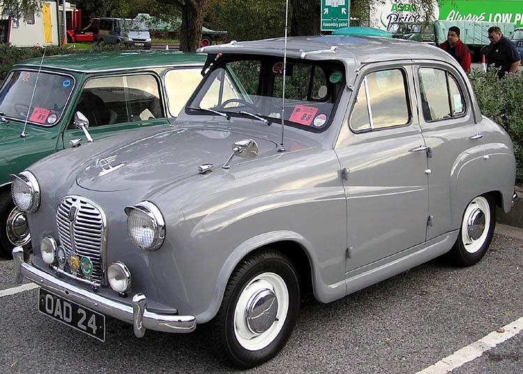 1954 Austin A30 at the Great West Road Run rally at Aust Services, Aust, Bristol, England. Taken by Adrian Pingstone in October 2004 and released to the public domain.